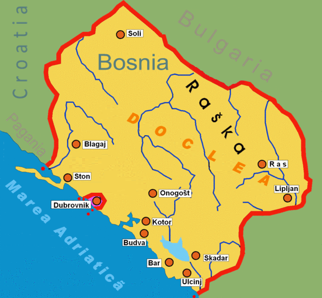 Kingdom of Duklja during Constantine Bodin.Српски (ћирилица): Краљевина Дукља за вријеме Бодина